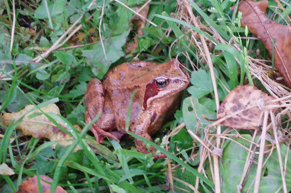 Common frog (Rana temporaria)